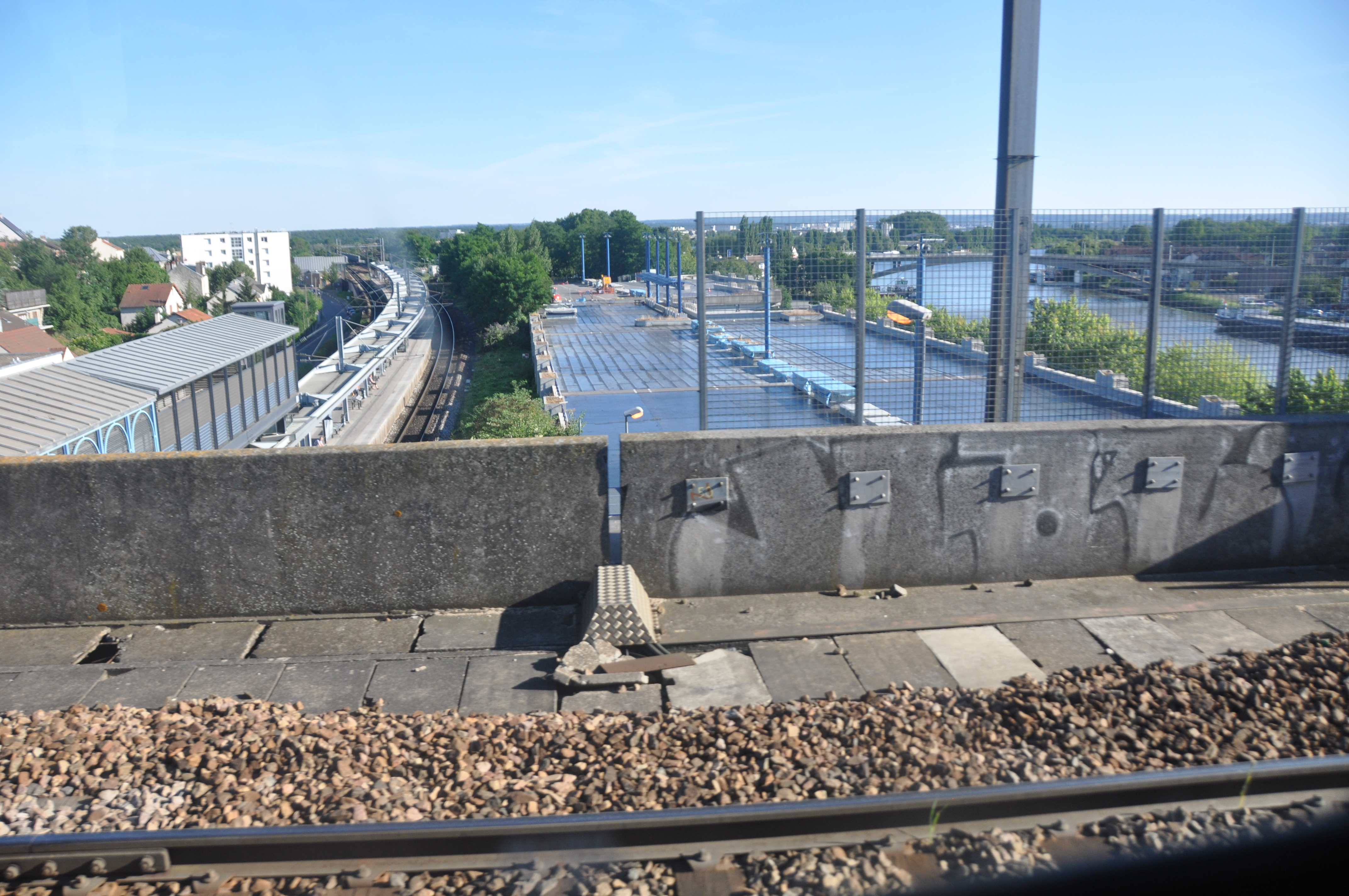 Vue vers le sud prise depuis la gare Conflans-Pont Eiffel (viaduc de la ligne de Paris-Saint-Lazare à Mantes-Station par Conflans-Sainte-Honorine). L’Oise est à droite, la ligne du RER A d'Achères à Cergy-Pontoise et la gare Conflans-Fin d'Oise à gauche.